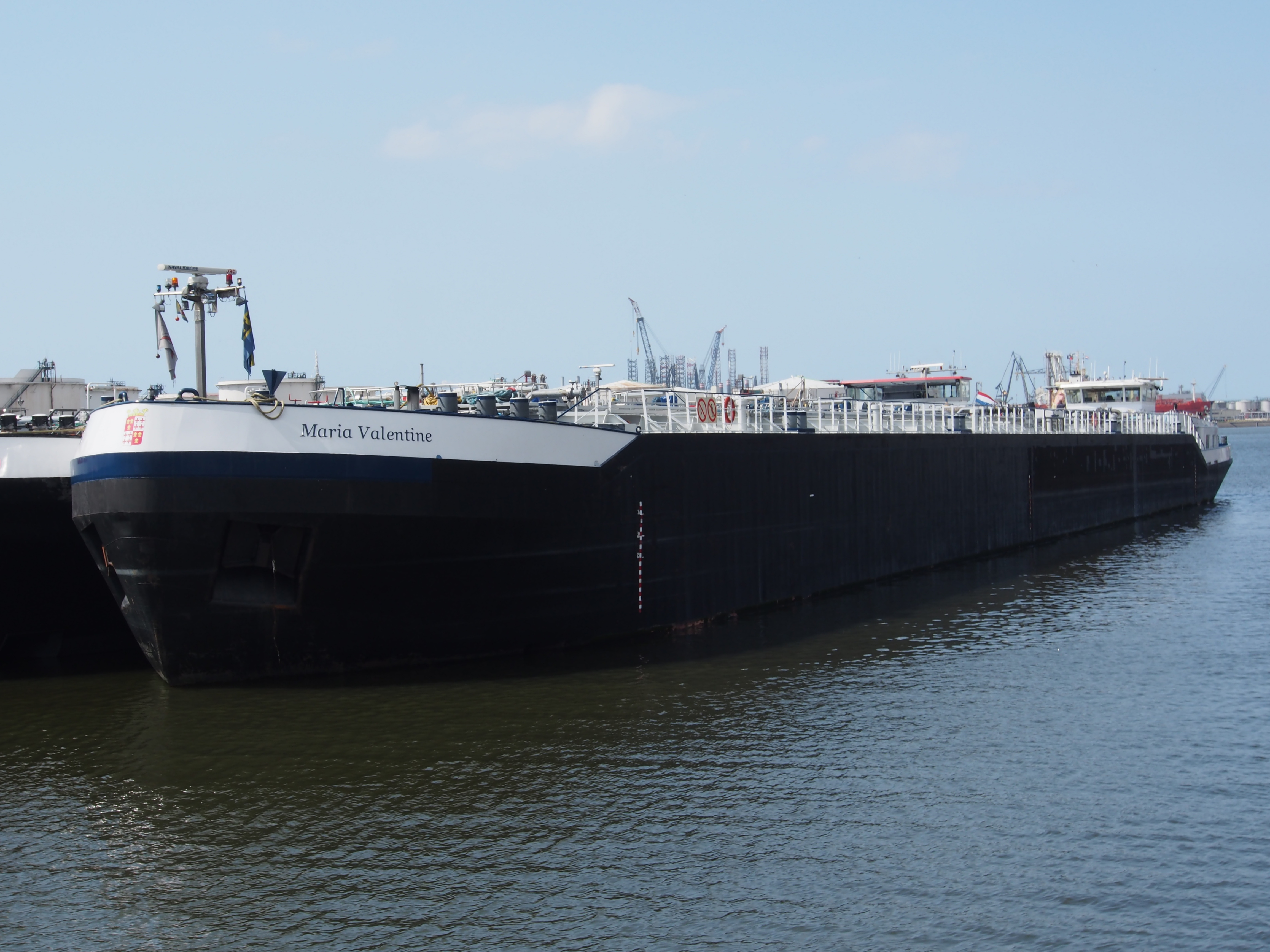 Photographed at or near the Port of Rotterdam.